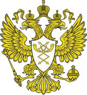 The emblem of the Ministry of Telecom and Mass Communications of the Russian Federation.